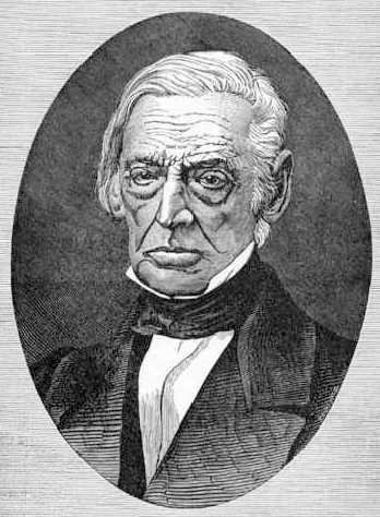 Woodcut work of José Manuel Restrepo Vélez, Colombian historian and writer.